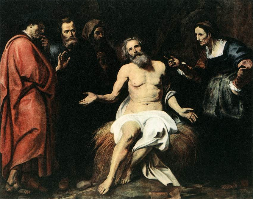 Job is seen refuting the idea of retributive justice endorsed by his friends. Job's misfortunates were indeed undeserved and he will later confront God in a second whirlwind (40:6 - 41:34). God tells Job it is not humans which are his most prized creation but Behemoth and Leviathan, or the monsters of chaos. Most scholars believe the particulars that follow correlate to the Crocodile and Whale. He [crocodile] is the chief of God's works made to be tyrant over his fellow creatures (40:19)... He [whale] has no equal on earth, a creature utterly fearless. He looks down on all, even the highest: over all proud beasts he is king (41:33-34).